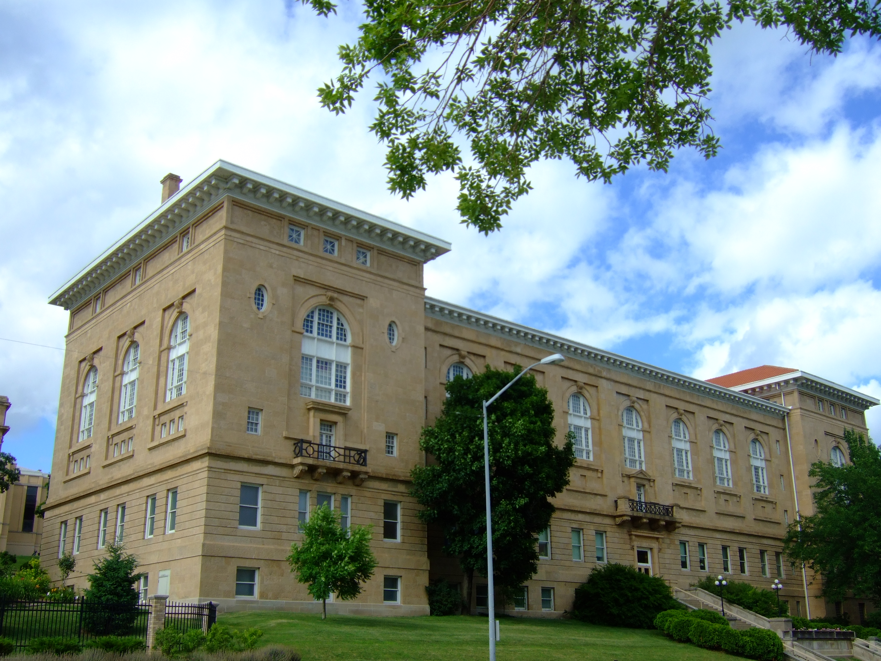 Lathrop Hall at 1050 University Avenue, Madison, Wisconsin. Added to the National Register of Historic Places in 1985.